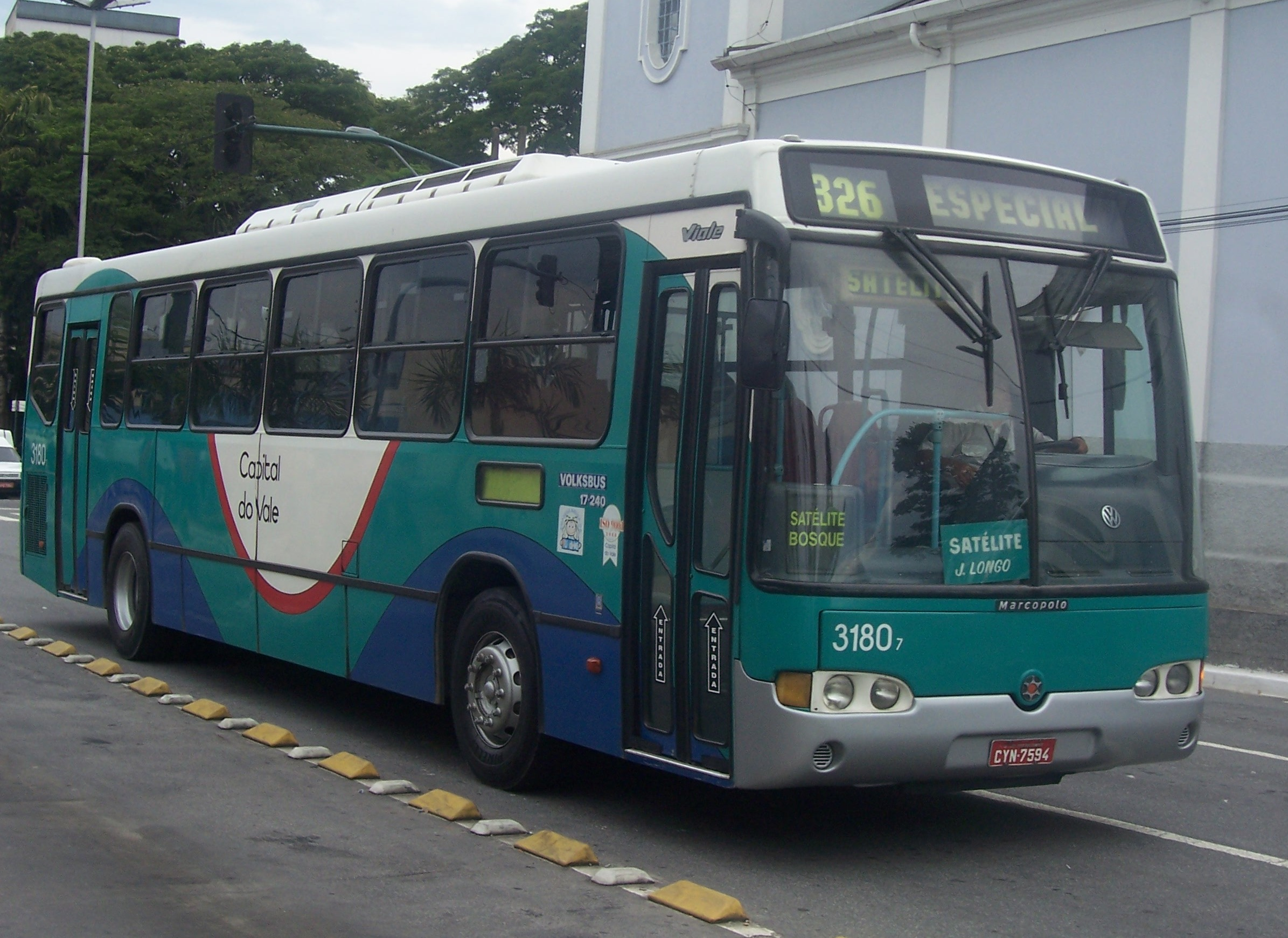 Marcopolo Viale bus (#3180) with Volkswagen Volksbus 17.240 OT chassis in Brazil. Viação Capital do Vale.